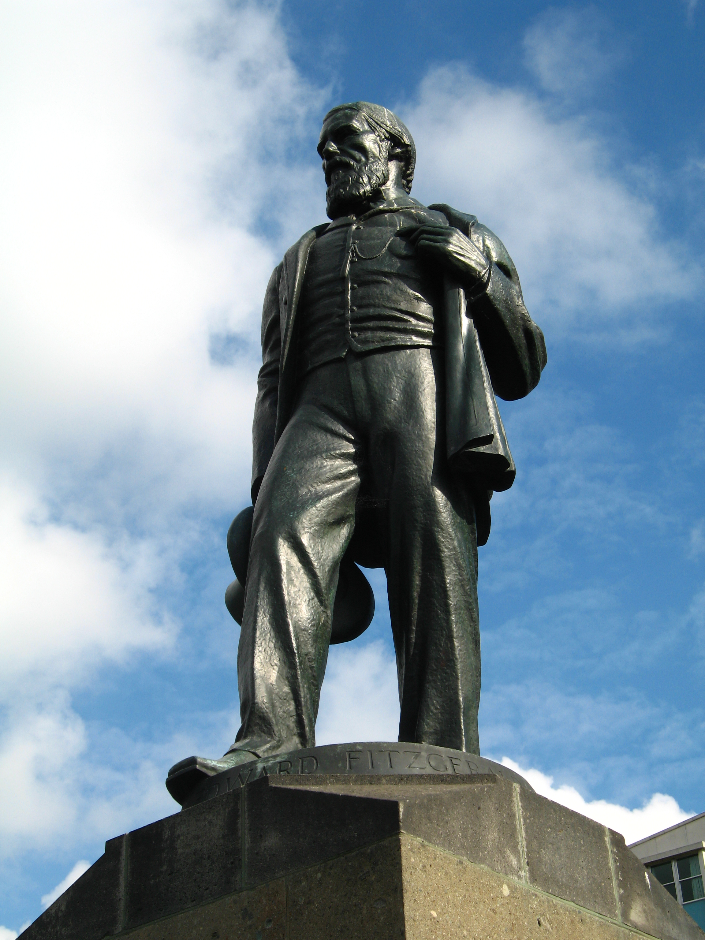 Statue of James Edward FitzGerald, intersection of Cashel Street and Rolleston Avenue, Christchurch, New Zealand.